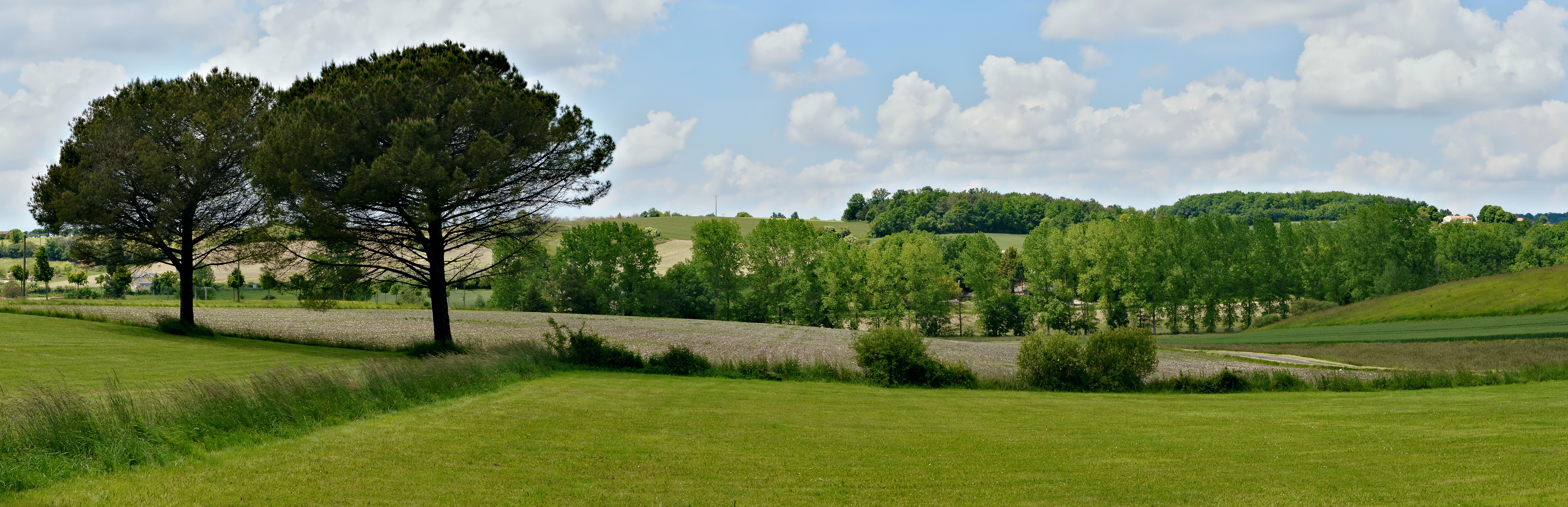 Spring landscape with two pine-trees (Pinus pinea), Chavenat, Charente, France.